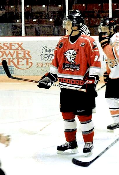 These images of OHA Jr. C action during the 2012-13 season are taken by Devan Mighton.